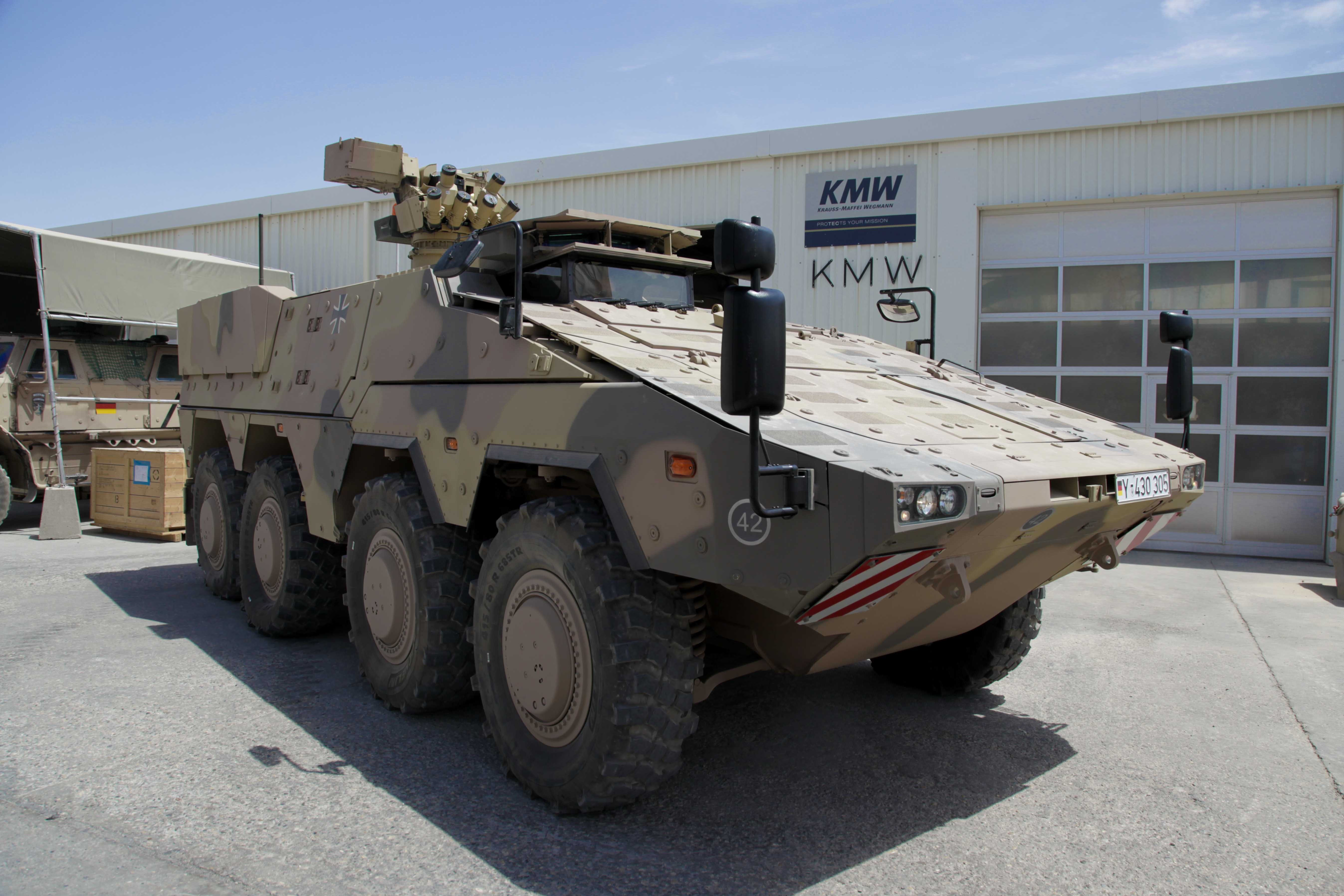 110702-O-XXXXK-001 MAZAR-E-SHARIF, Afghanistan. (July 28, 2011) The first German Army Boxer Armored Transport Vehicles deployed to Northern Afghanistan arrive at Camp Marmal, International Security Assistance Force, Regional Command North. The Boxer is equipped with modern optics and remote-controlled weapons stations and provides improved protection to its crews. (RC North Public Affairs photo by Tech. Sgt. Florian Krumbach/Released)